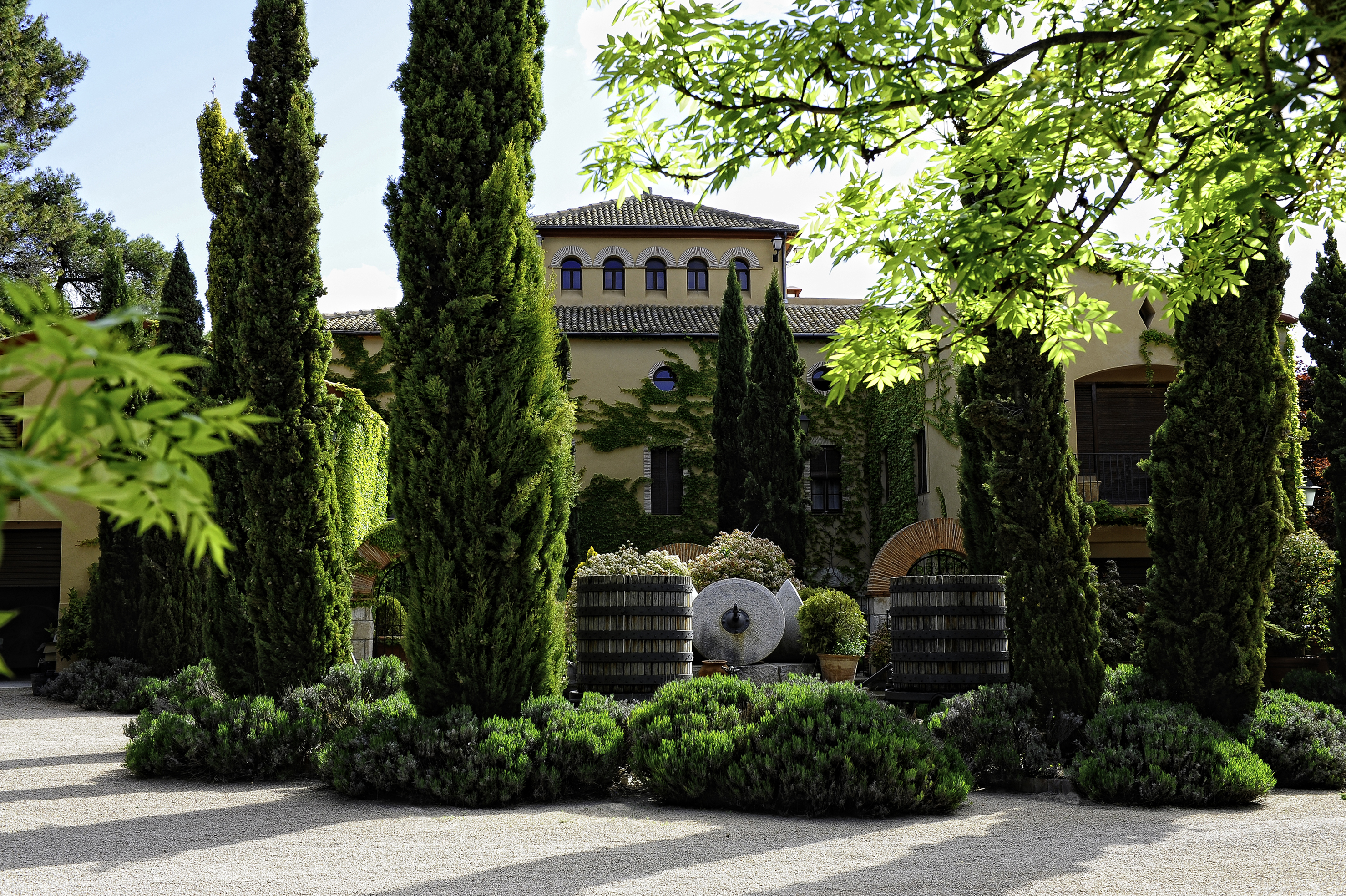 Parte trasera Masía el Altet